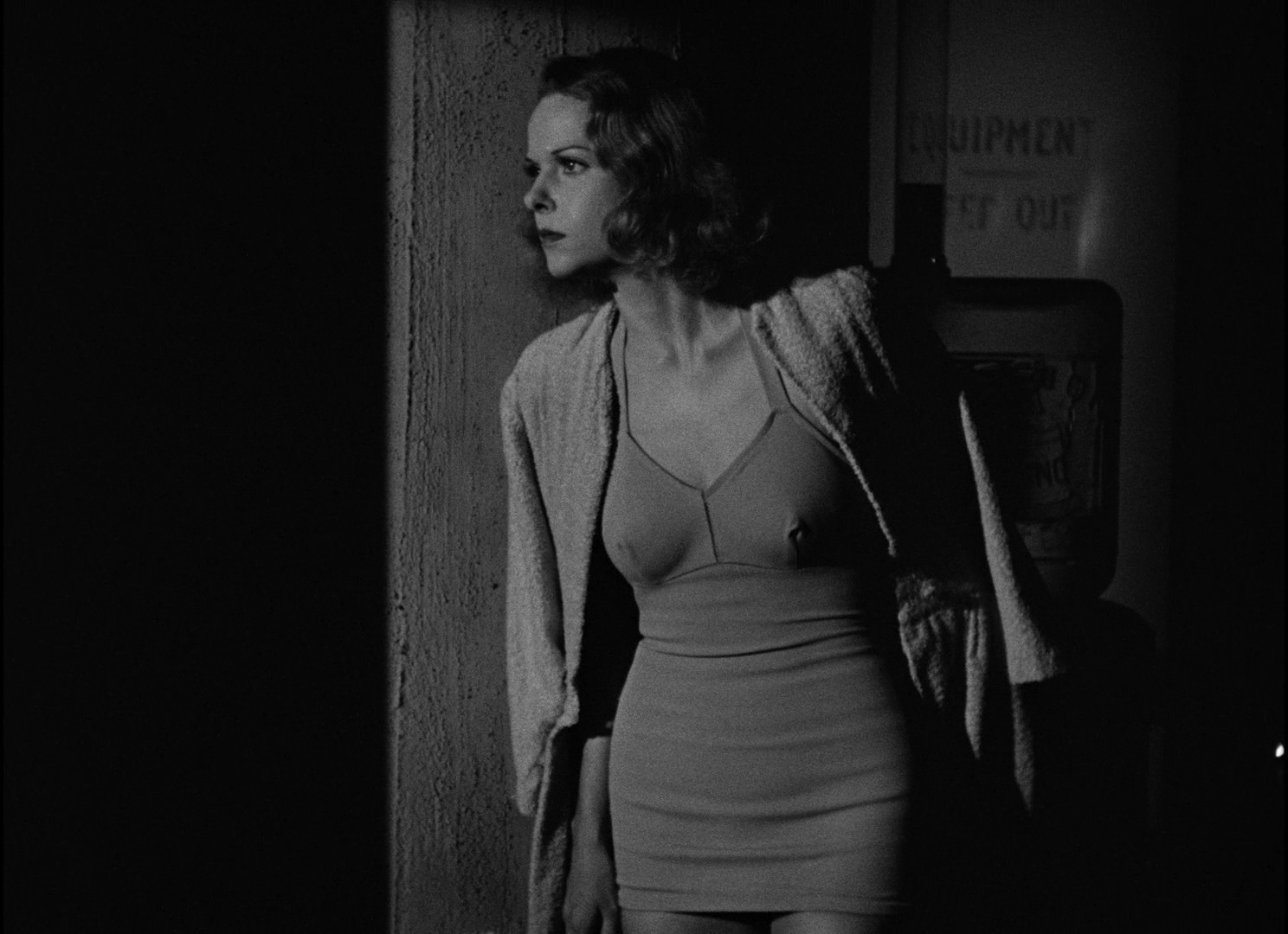 Cropped screenshot of Jane Randolph from the trailer for the film Cat People.